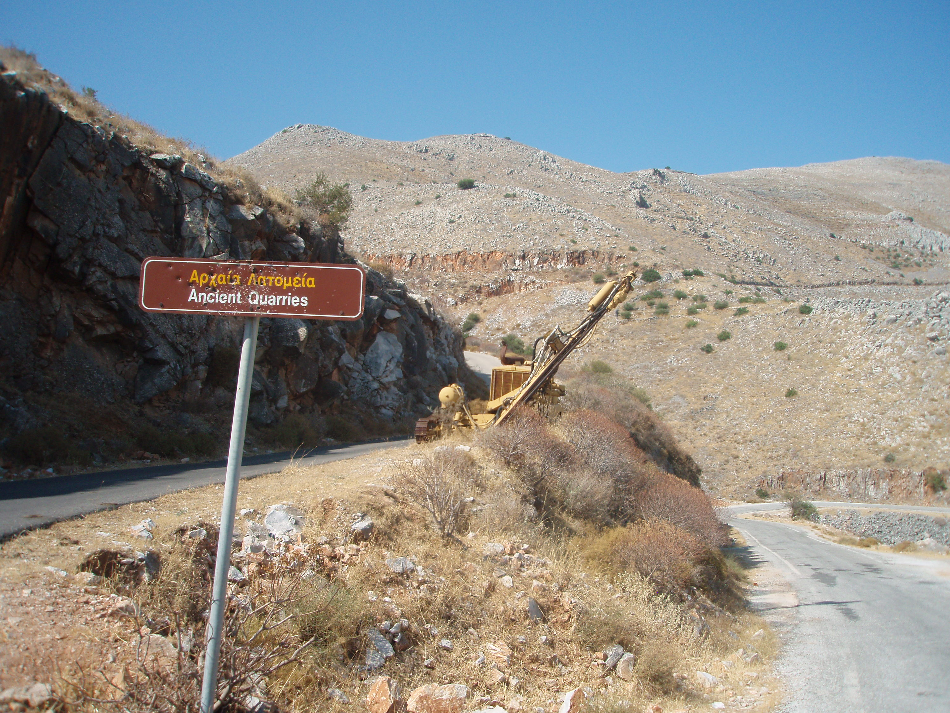 Marble Ancient Quarry of Mani, South Peloponnisos Greece